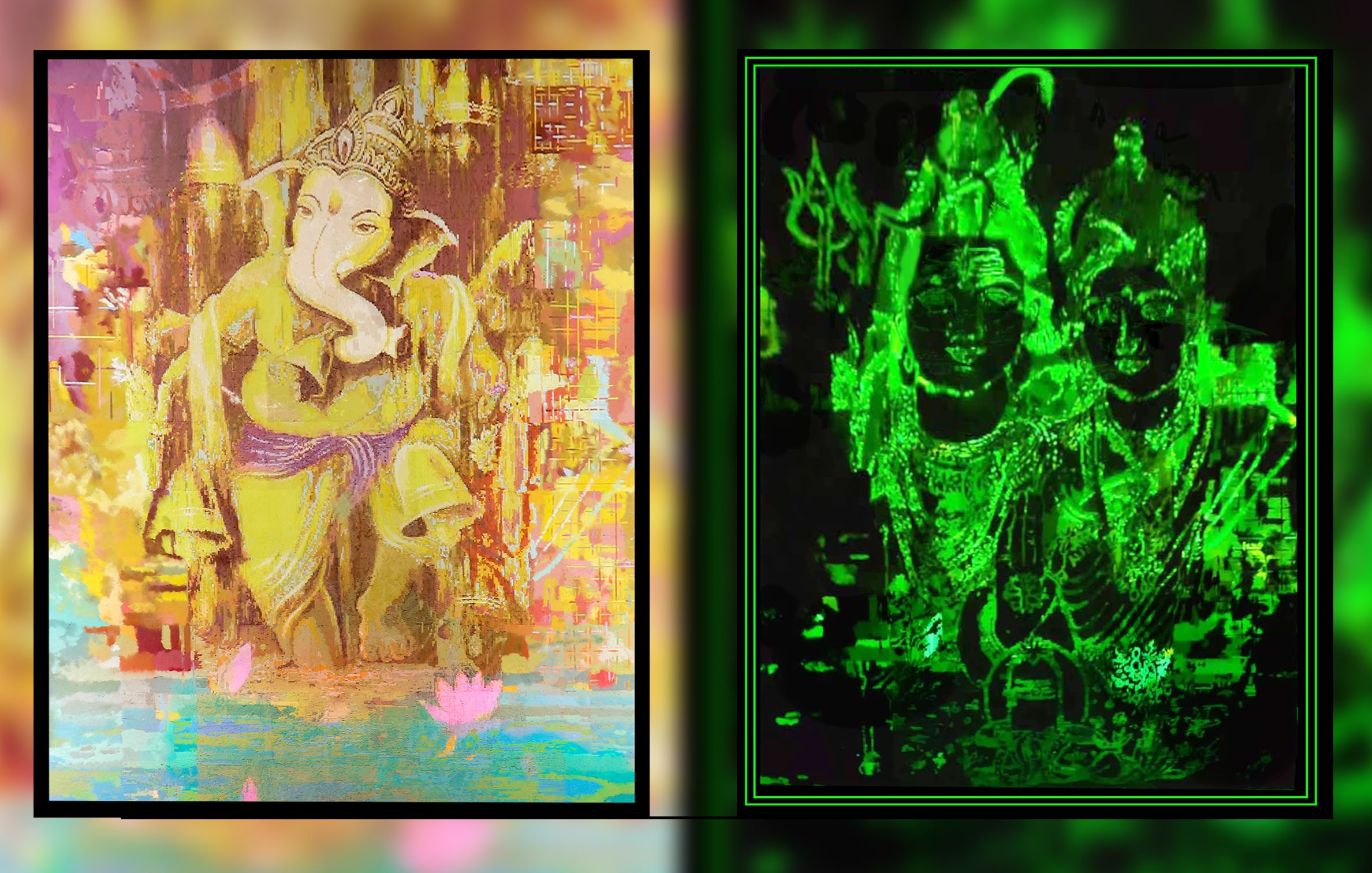 Celebration of Dewali at IIT Kharagpur. Image is the Rangoli in RP hall of residence